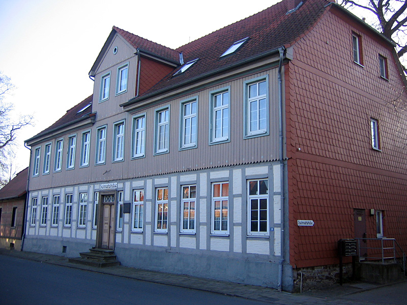 Birthplace of Wilhelm von Bode in Calvörde